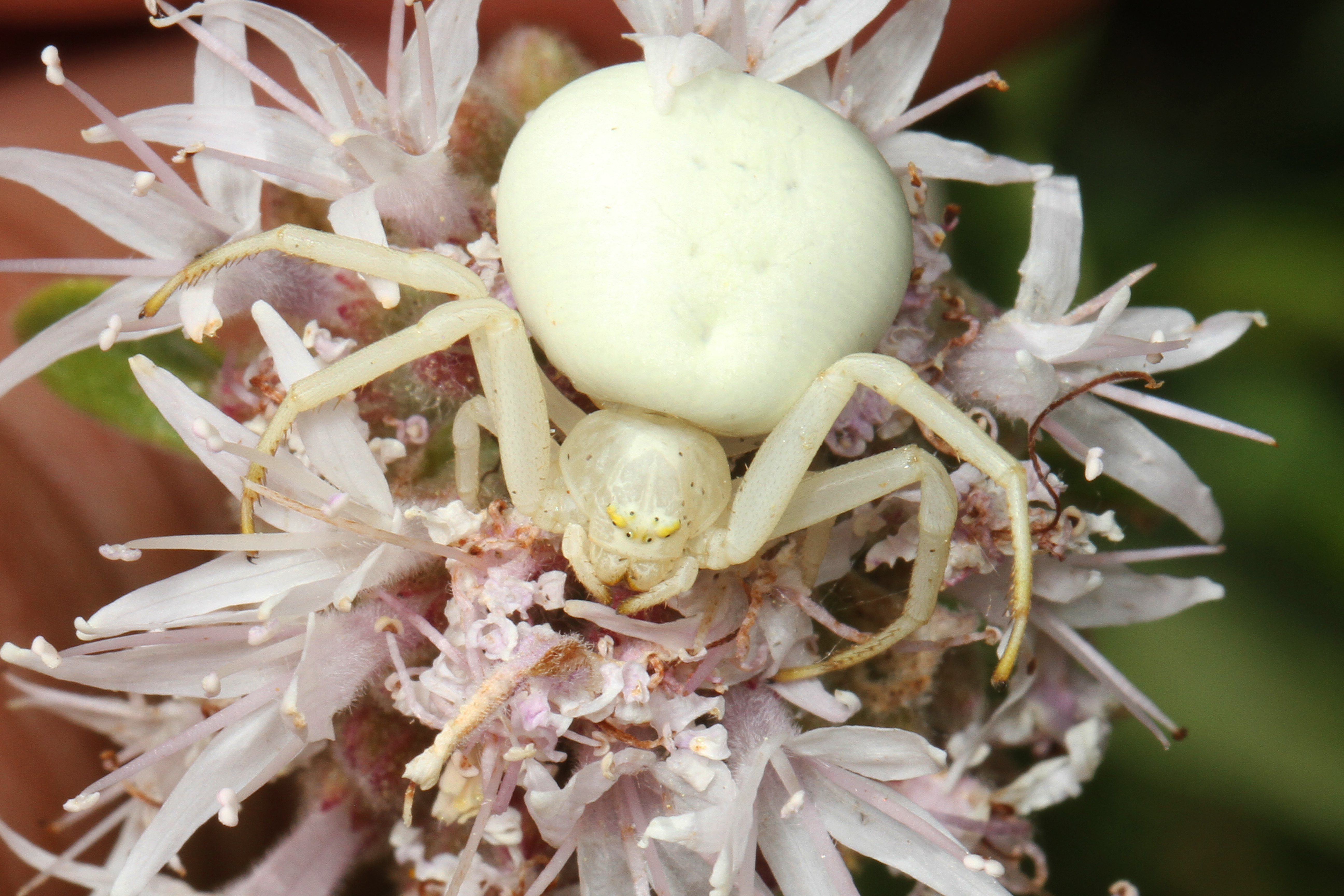 Goldenrod Crab Spider - Misumena vatia, Packer Lake, California